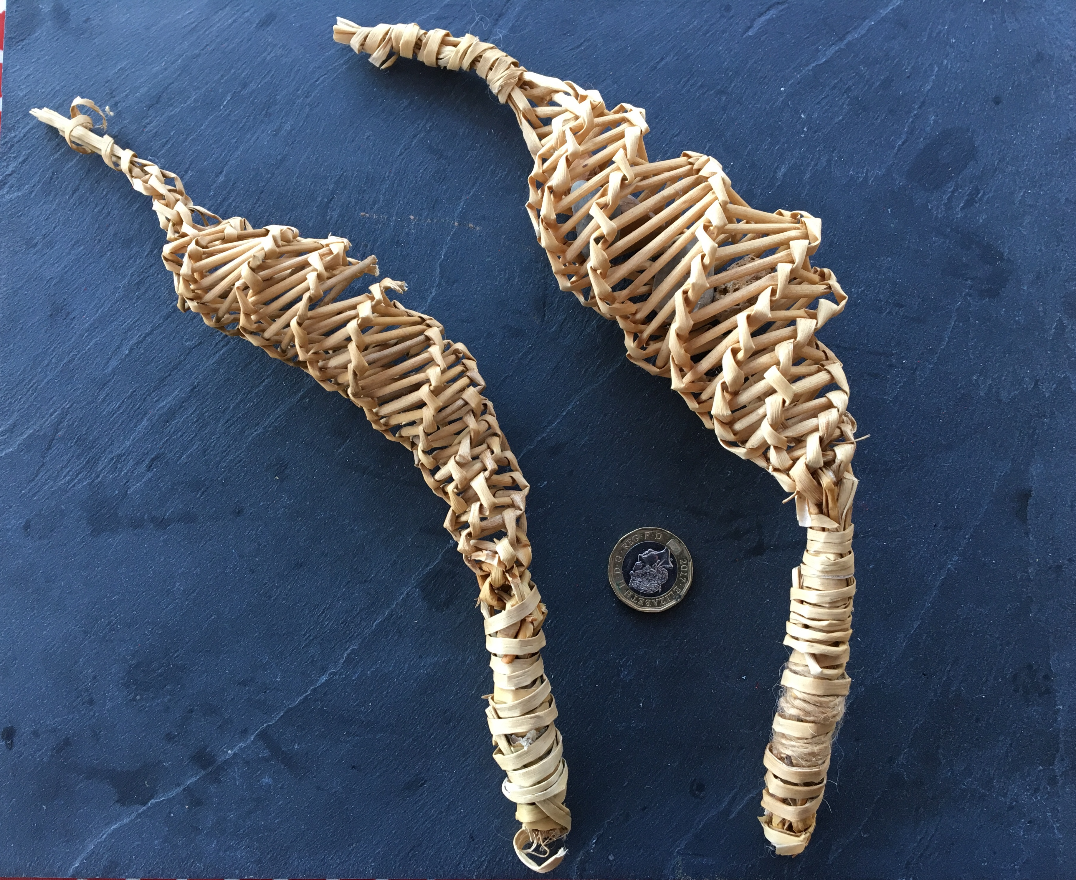 A child’s rattle fashioned from rushes or straw traditionally called in Welsh “morthwyl sinc” or a “rygarug